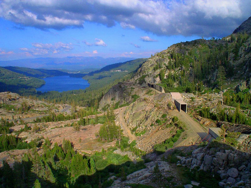 The abandoned Track #1 CPRR/SPRR/UPRR railroad grade over Donner Pass. (2003) ©2003-2007 [1]